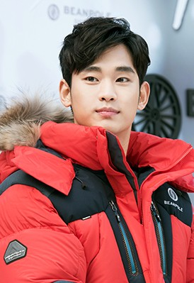 Kim Soo-hyun at a fansigning event for Bean Pole Outdoor, 21 November 2014